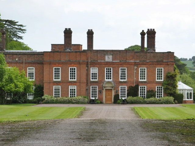 Peplow Hall. Driveway to Peplow Hall.